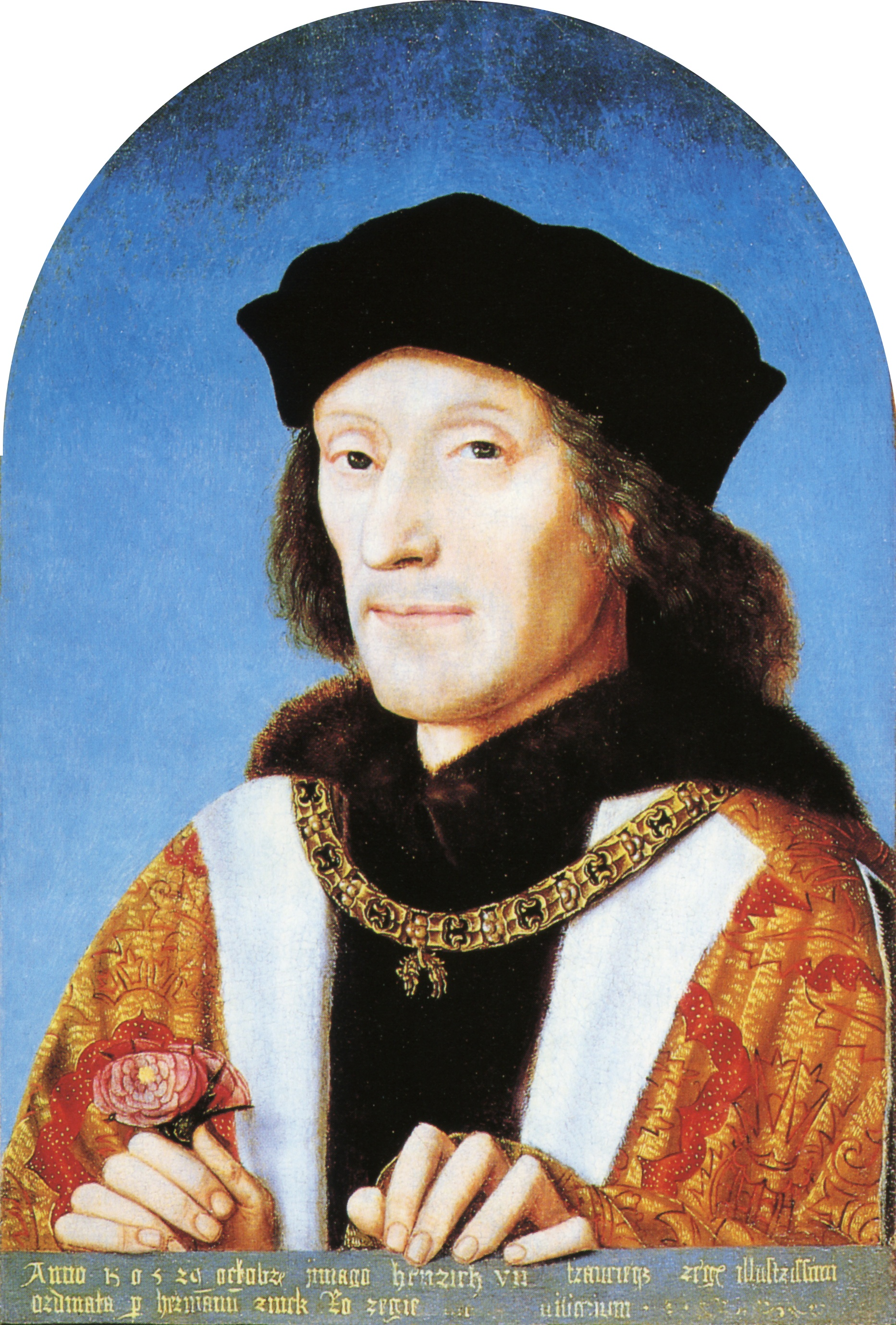 arched topText from NPG catalogue: "This impressive portrait is the earliest painting in the National Portrait Gallery's collection. The inscription records that the portrait was painted on 29 October 1505 by order of Herman Rinck, an agent for the Holy Roman Emperor, Maximilian I. The portrait was probably painted as part of an unsuccessful marriage proposal, as Henry hoped to marry Maximillian's daughter Margaret of Savoy as his second wife".